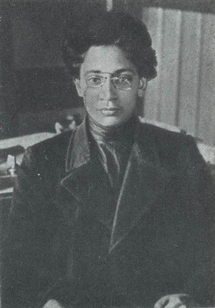 Yakov_Sverdlov (1885-1919).Image of tsarist secret police Okhrana. 1903.